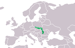 Distribution of Triturus montandoni, based on Nöllert/Nöllert: "Die Amphibien Europas"